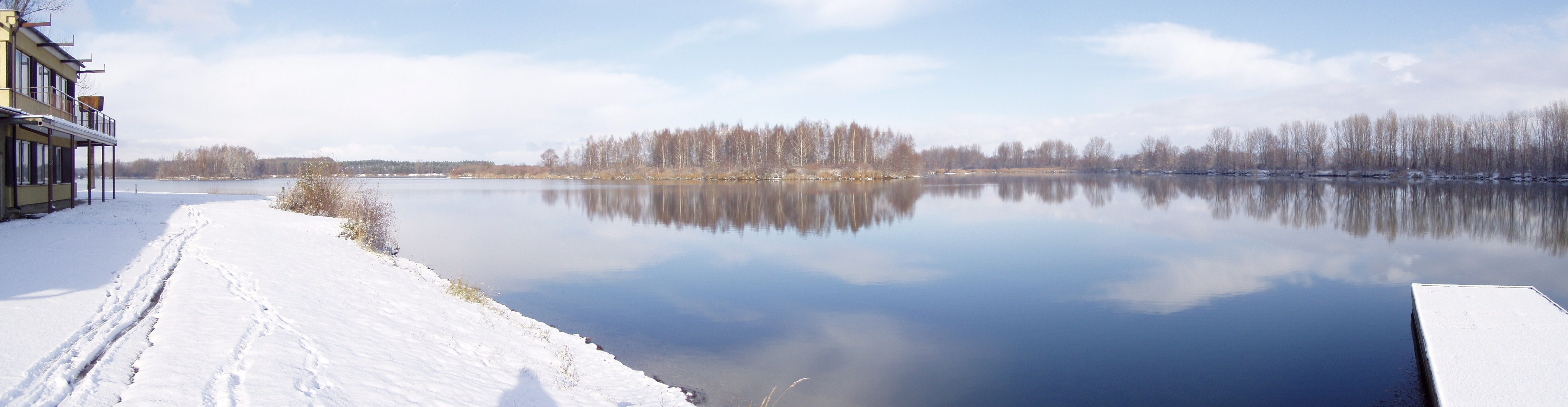 Chomoutov lake